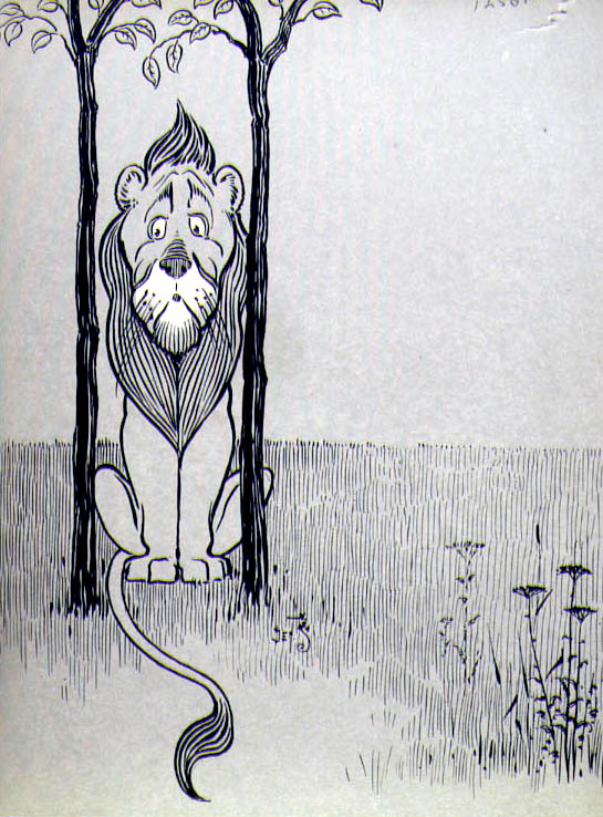 An illustration by W. W. Denslow from The Wonderful Wizard of Oz, also known as The Wizard of Oz, a 1900 children's novel by L. Frank Baum.